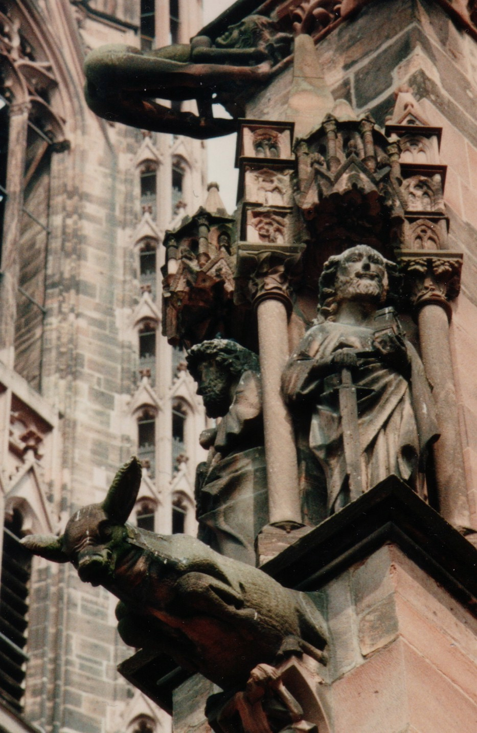 Waterspouts and other sculptured figures on the Freiburger Münster, Germany